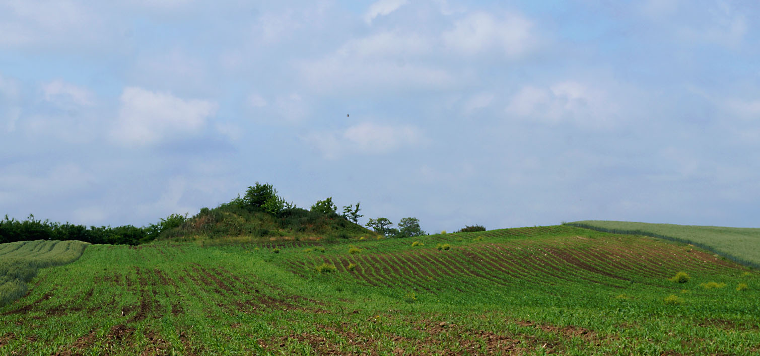 Panoramic view (with the terrain configuration) of the first in row kurgan of the set of watch-hills in the vicinity of Sanad in Serbian Banat, municipality of Čoka. Srpski (latinica): Prva u nizu humki-stražara (kurgana) u blizini Sanada, opština Čoka, prikazana u predelu sa konfiguracijom terena. Ova humka je zbog blizine prometnice zasad sačuvana od vandalizma.